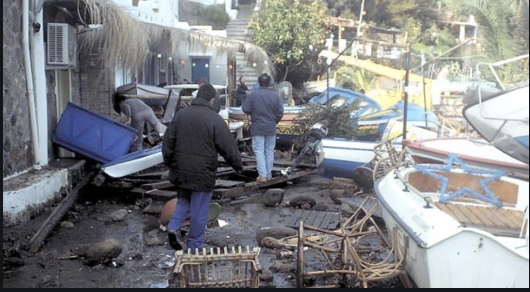 This picture shows the damages that the tsunami has caused in Panarea.